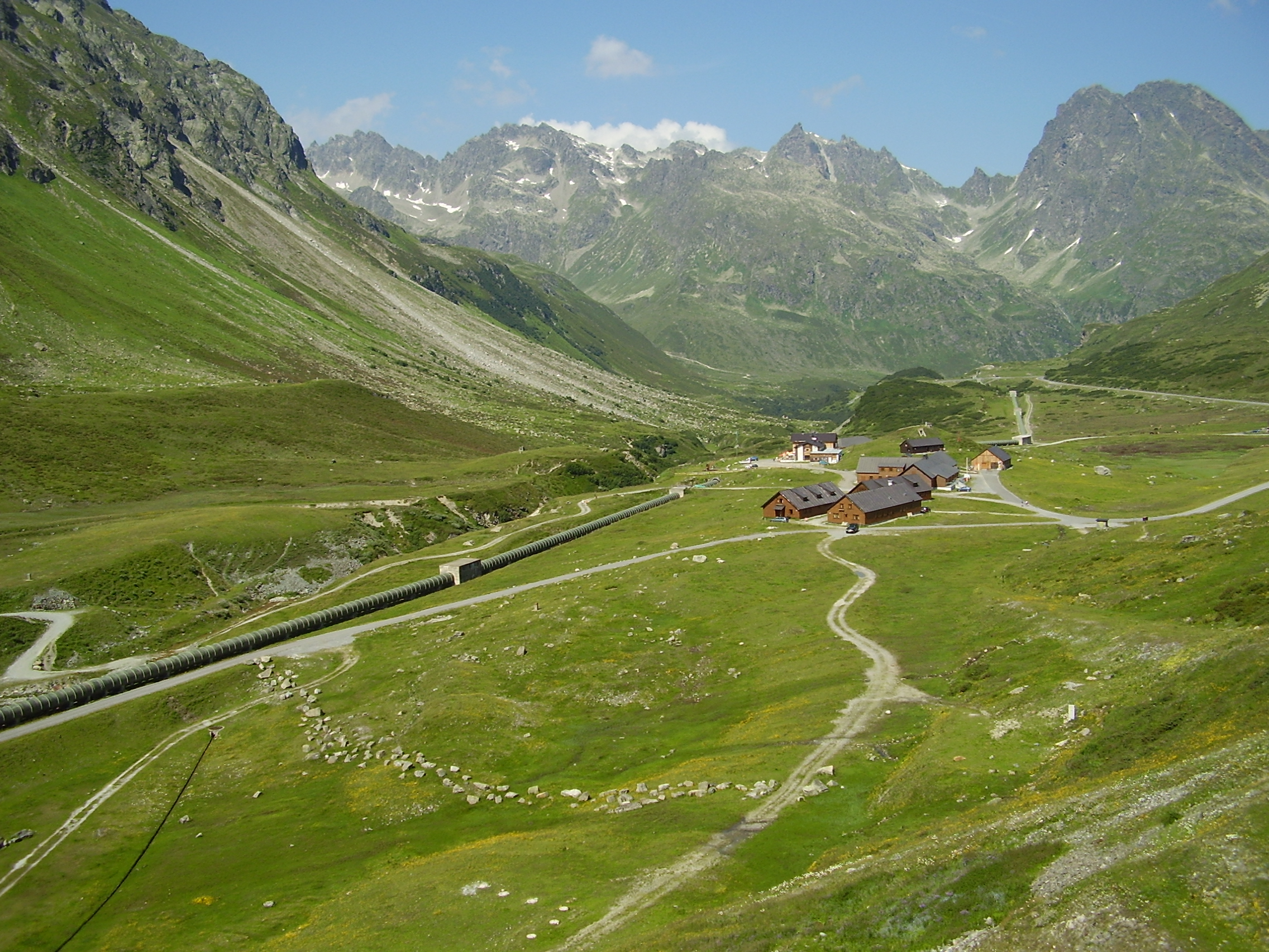 Silvretta-Stausee , view to west. military huts and Madlenerhaus. mountains in the background from left to right: Zwilinge 2869m, Valgraggestürme 2820m, Südliche Valgraggesspitze 2761m, Nördliche Valgraggesspitze 2793m, Hochmaderer 2823m